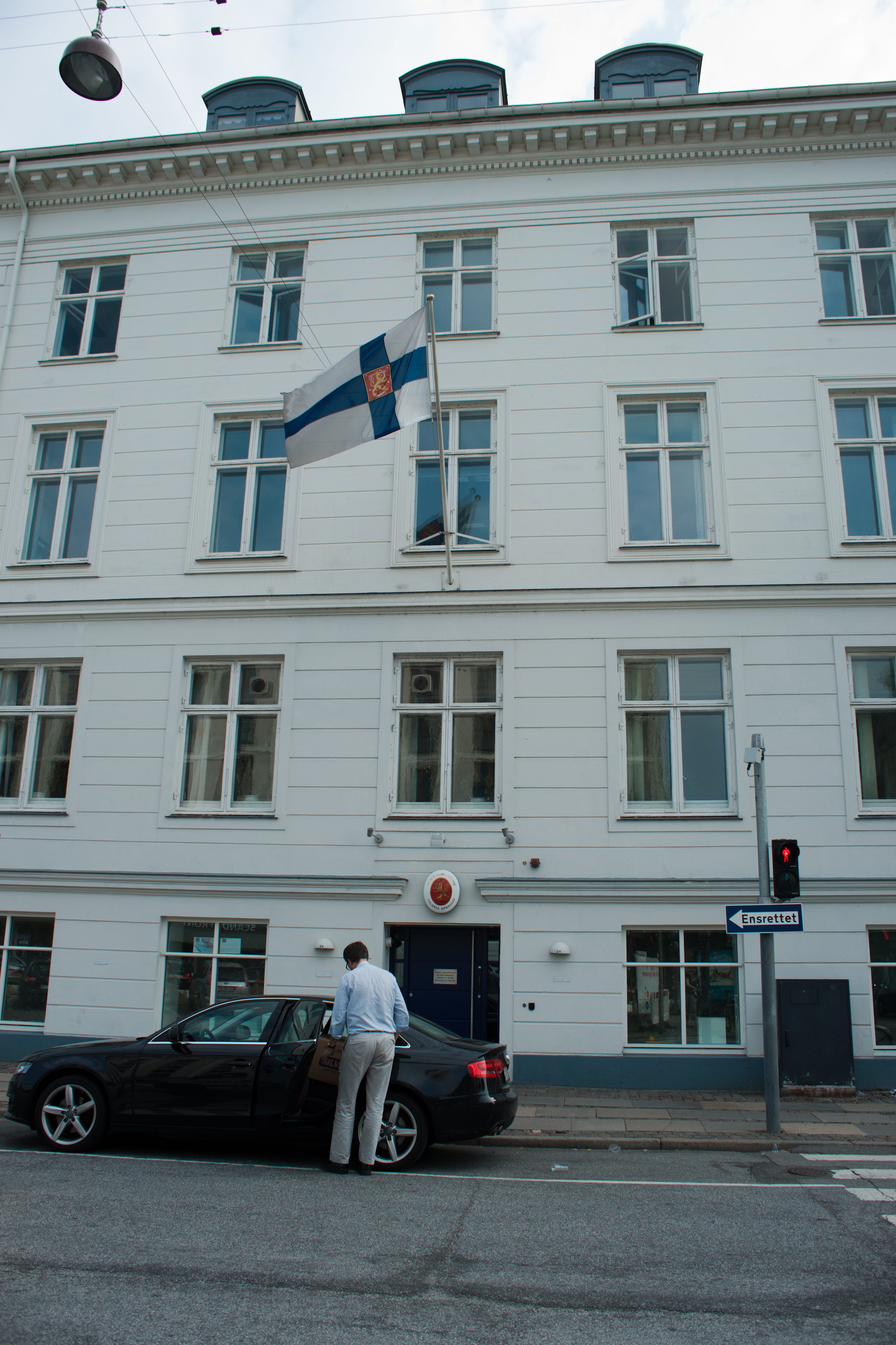 Embassy of Finland in Copenhagen (Denmark).